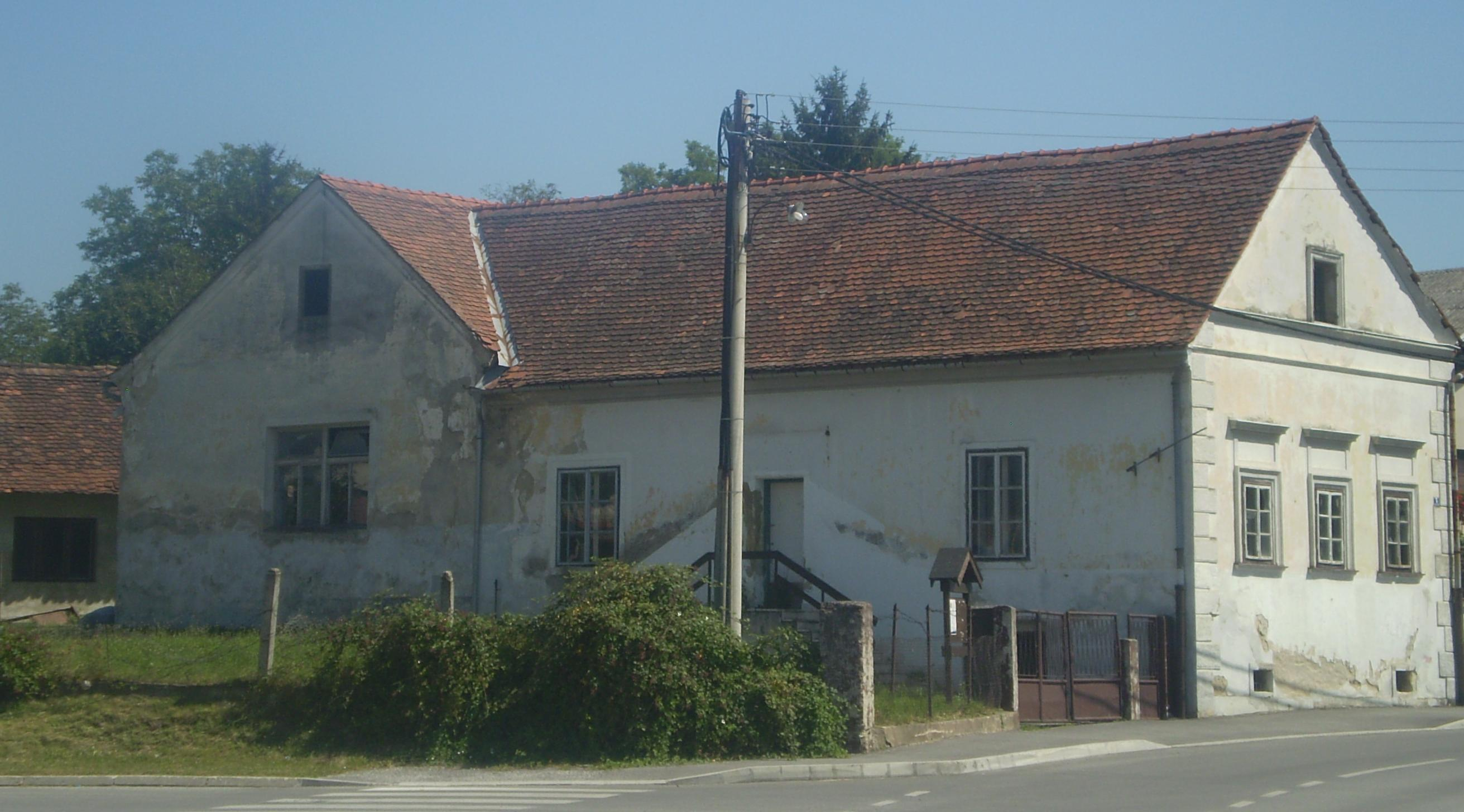 Photo of "Old School" in Ivanec, Croatia.